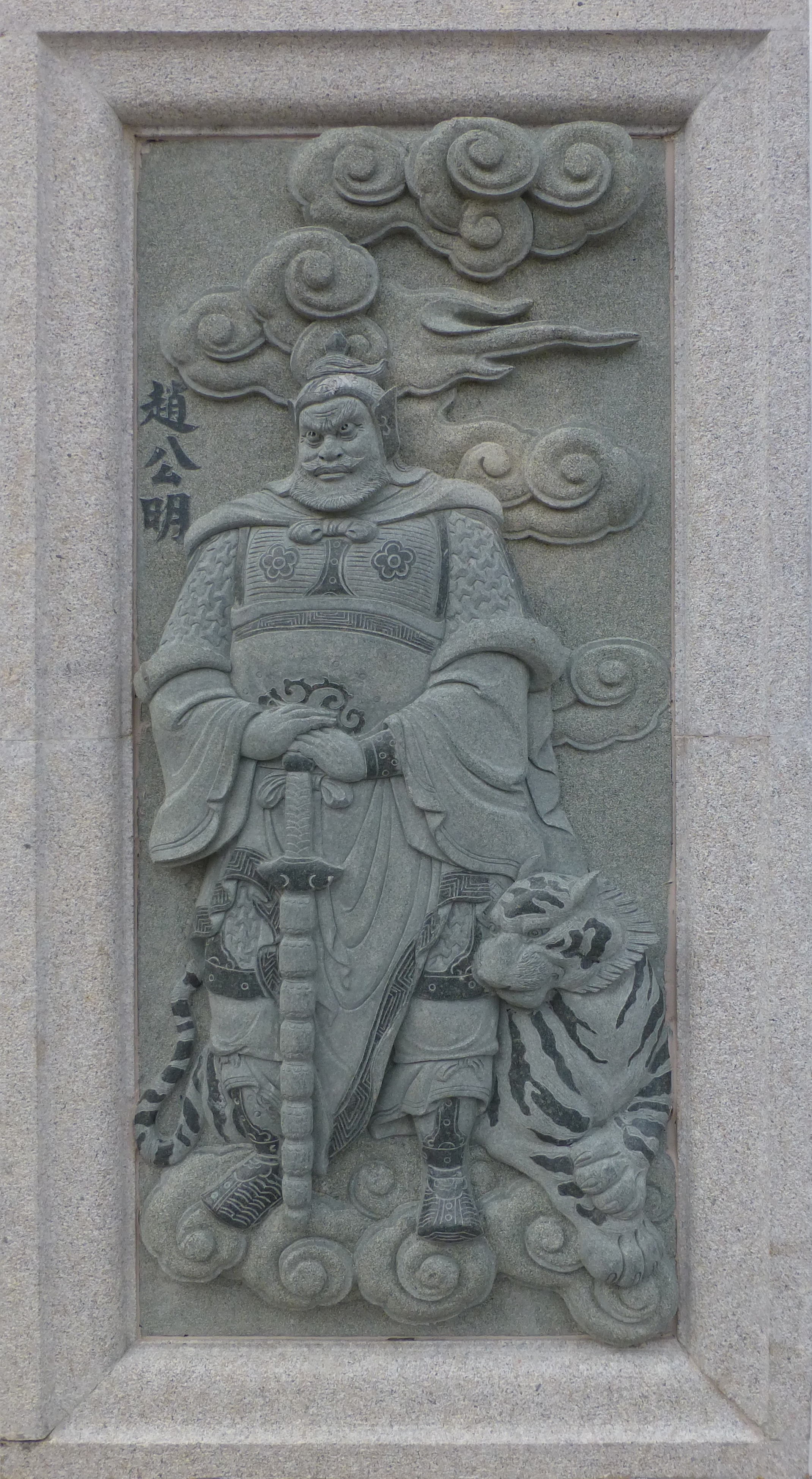 032 Zhao gong ming, Investiture of the Gods at Ping Sien Si, Pasir Panjang, Perak, Malaysia Photograph from the Ping Sien Si Temple in Perak, Malaysia taken by Anandajoti.